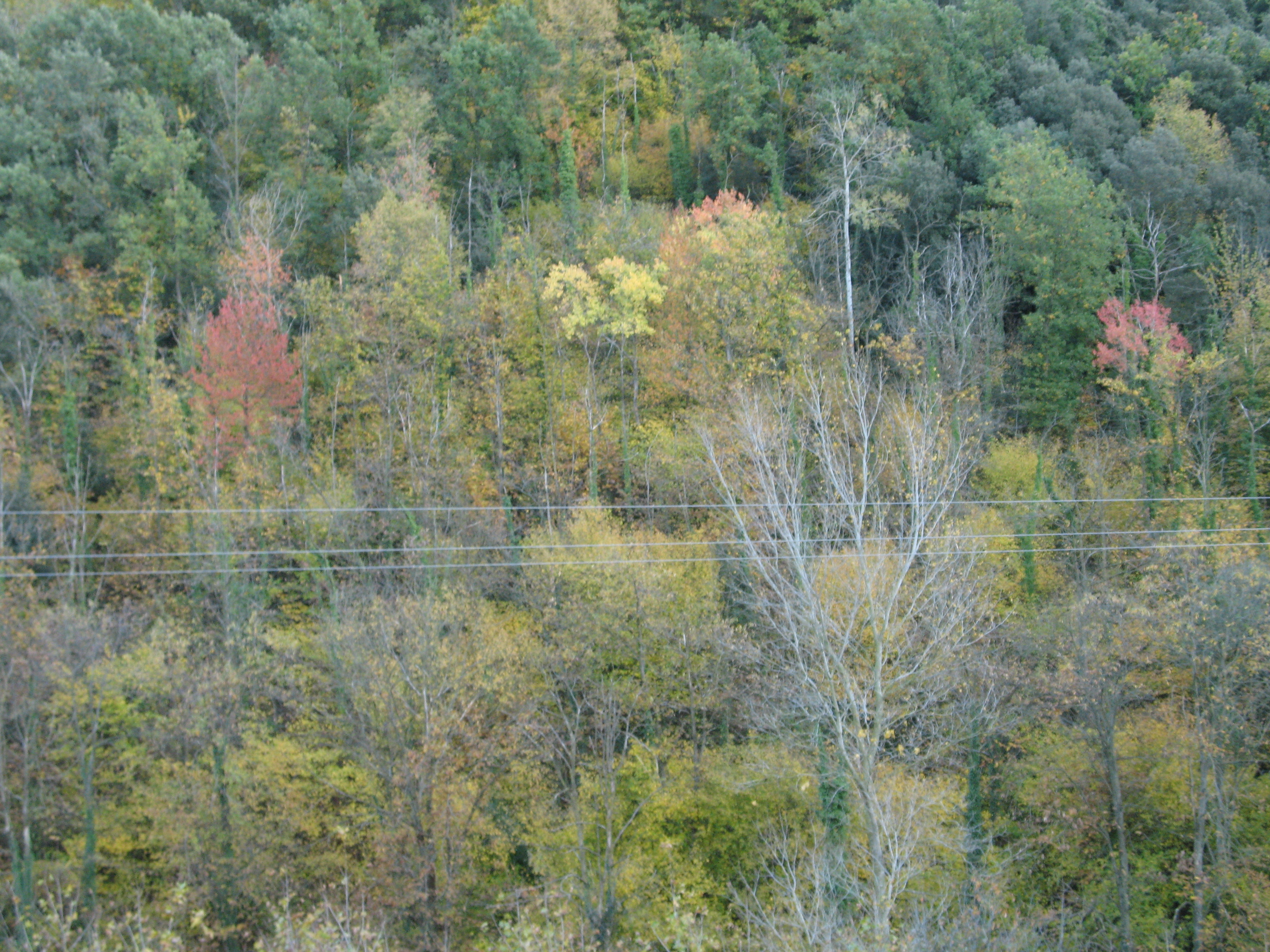 Deciduous forest at fall